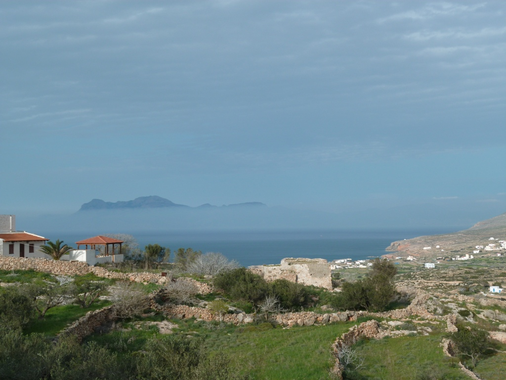 Kassos landscape. Karpathos is seen in the background